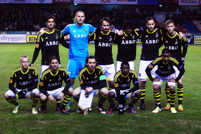 Back row left to right: Celso Borges, Ivan Turina, Helgi Daníelsson, Mohamed Bangura, Per Karlsson Front row left to right: Daniel Gustavsson, Martin Lorentzson, Nils-Eric Johansson, Ibrahim Moro, Robin Quaison